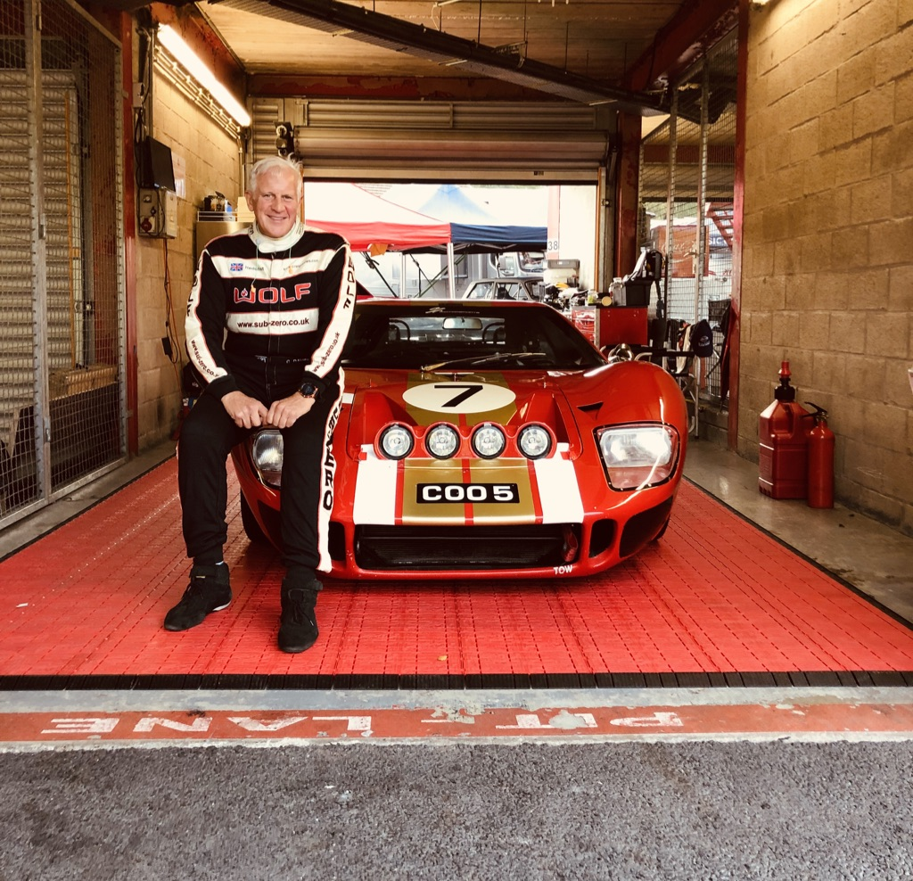 Ford GT40 - Six Hour Spa 2019